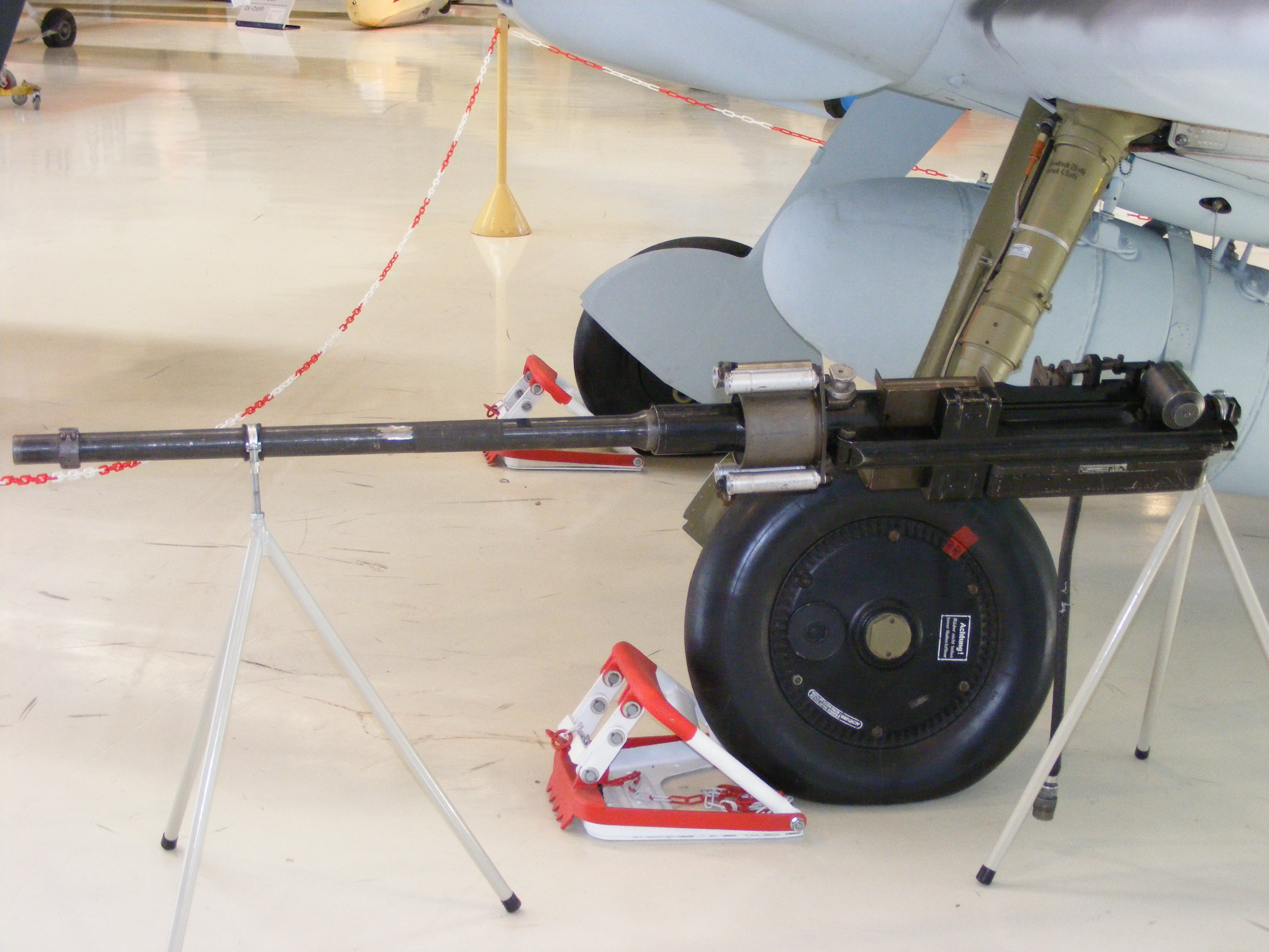 Mauser MG 151/20 at aviaticum museum, Austria